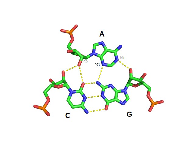 RNA Tertiary Structure A-minor motif type 1 interaction